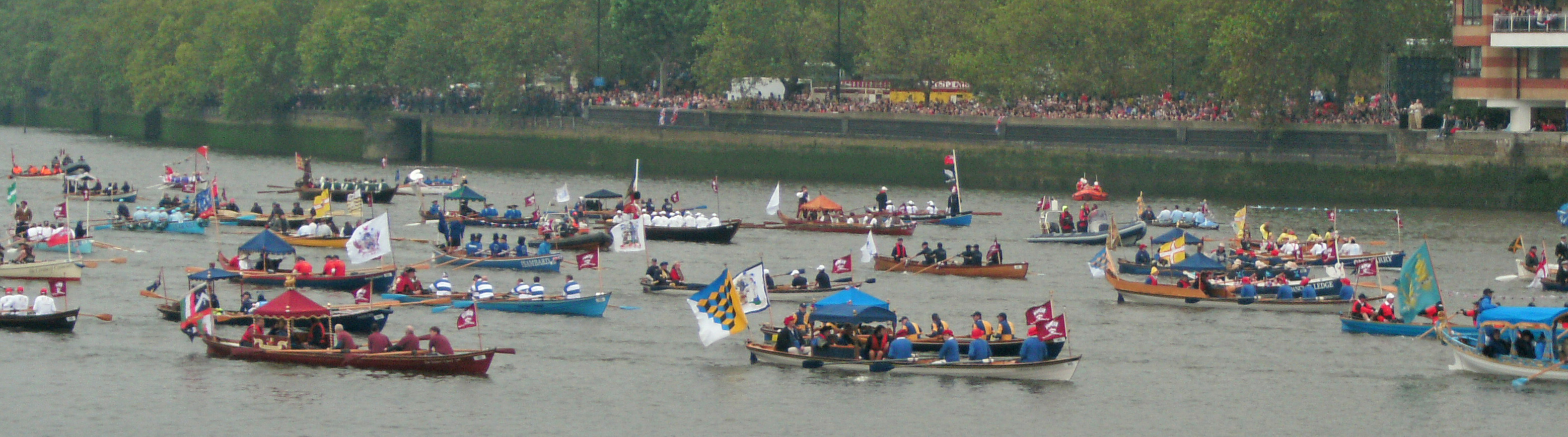 Man powered boats, the first wave of boats in the Thames Diamond Jubilee Pageant in honour of Queen Elizabeth II.